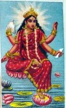 "Album of popular prints mounted on cloth pages. Colour lithograph, lettered, inscribed and numbered 37. The print is subdivided into ten equal parts, each representing one of the ten aspects of Devi, the divine mother. Each image is identified with a Bengali inscription, and the goddesses represented are: Kali, Tara, Shodashi, Bhuvaneshvari, Bhairavi, Chhinnamasta, Dhumavati, Bagalamukhi, Matangi, and Kamala. 2003,1022,0.37, AN804243 "